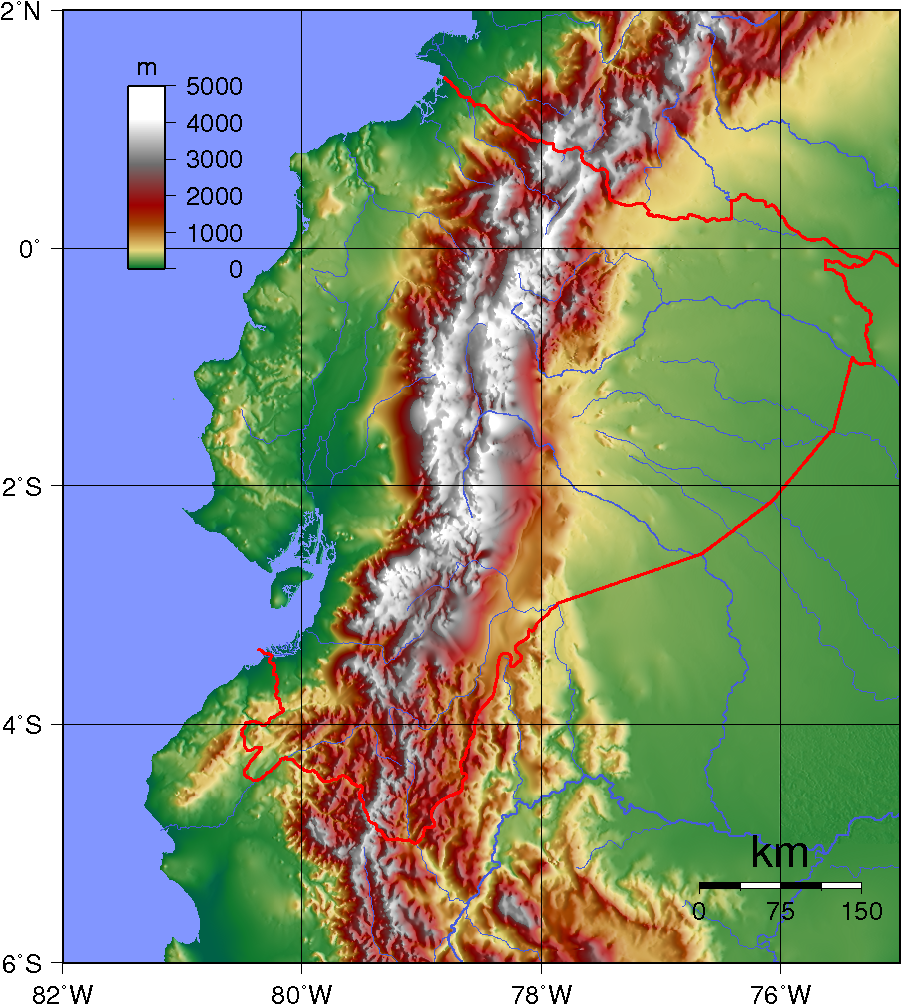 Topographic map of Ecuador. Created with GMT from public GLOBE data.